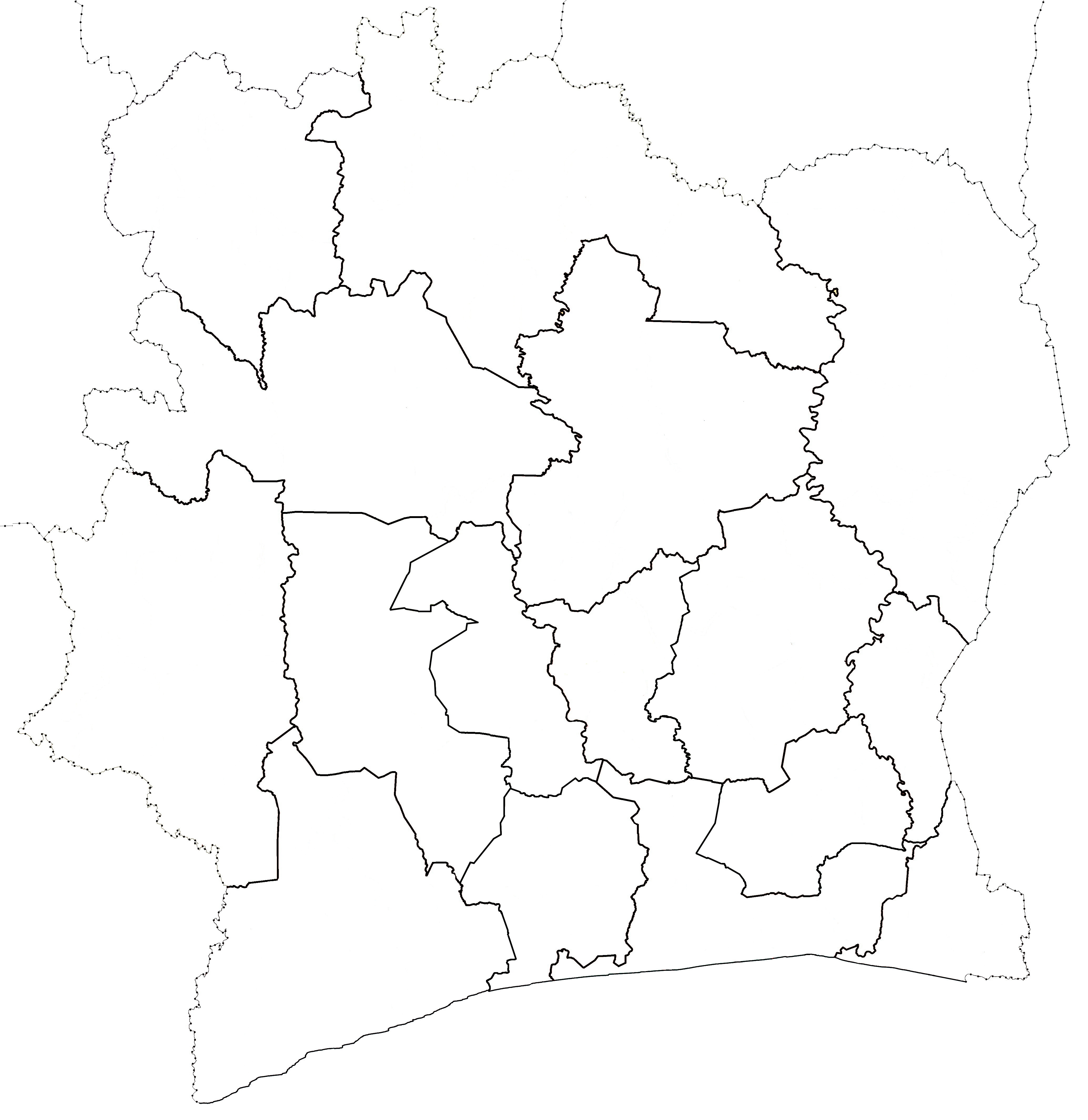 Blank locator map for the 16 regions of Côte d'Ivoire that were created in 1997. Three new regions were created in 2000.